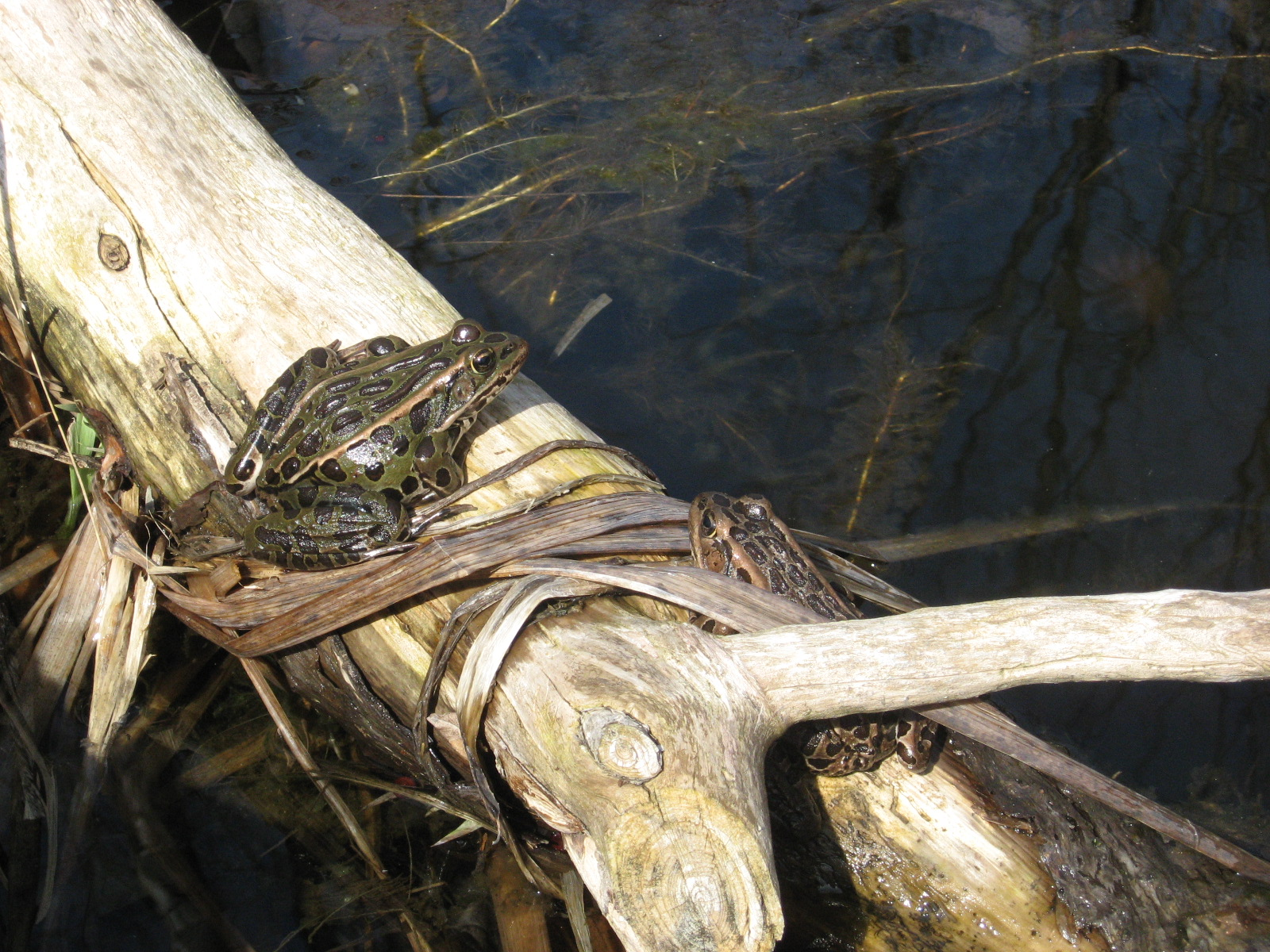 PD-US-Unpublished Own Work, all rights released (public domain)